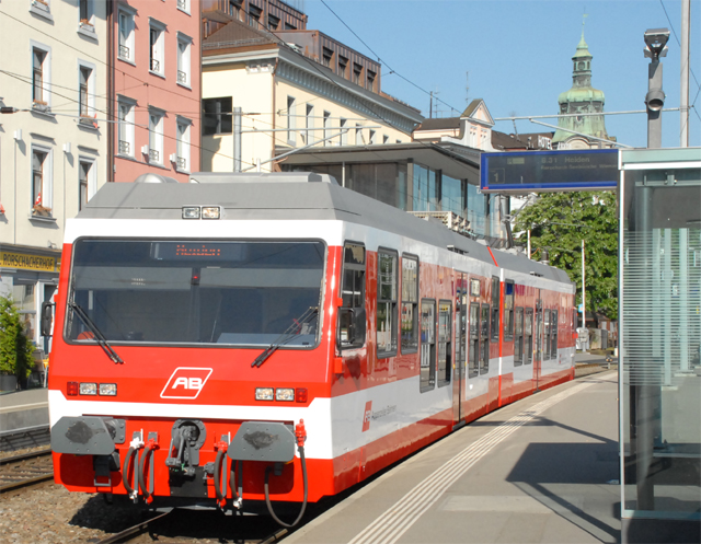 Articulated rack motor coach BDeh 3/6 25 of Appenzeller Bahnen for their standard gauge Rorschach–Heiden line. Picture from Rorschach Hafen